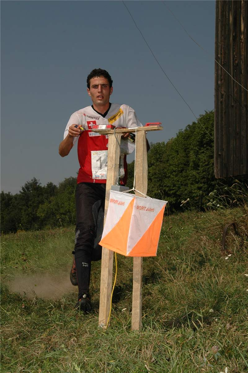 World Orienteering Championships 2007 in Kiev, Ukraine. On photo Swiss Matthias Merz.